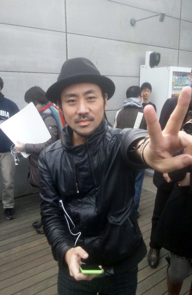 Kazuma Ieiri, January 26th 2014, Shibuya Tokyo